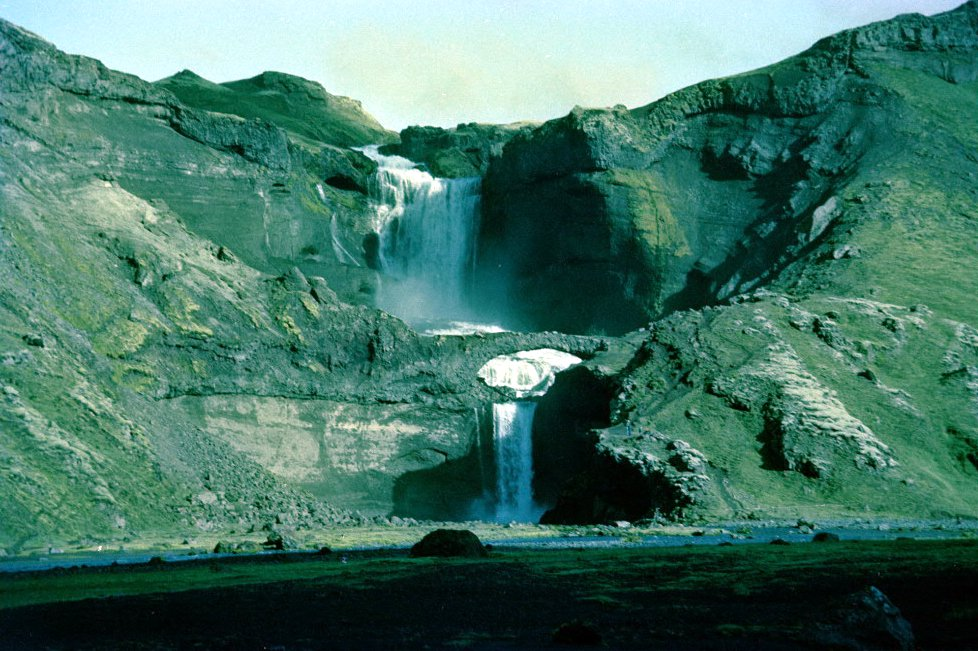 Natural stone bridge over Ofaerufoss, in Eldgja, southeast Iceland.